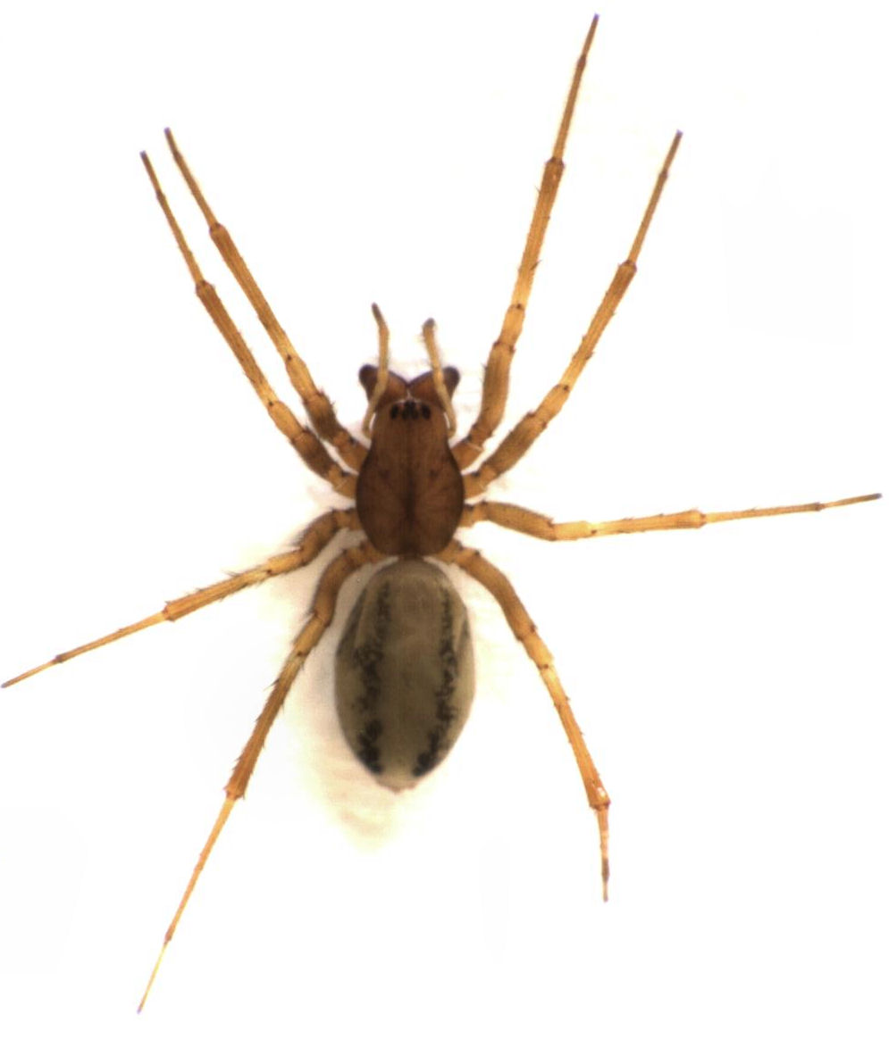 adult female Parafroneta marrineri, length about 8 mm